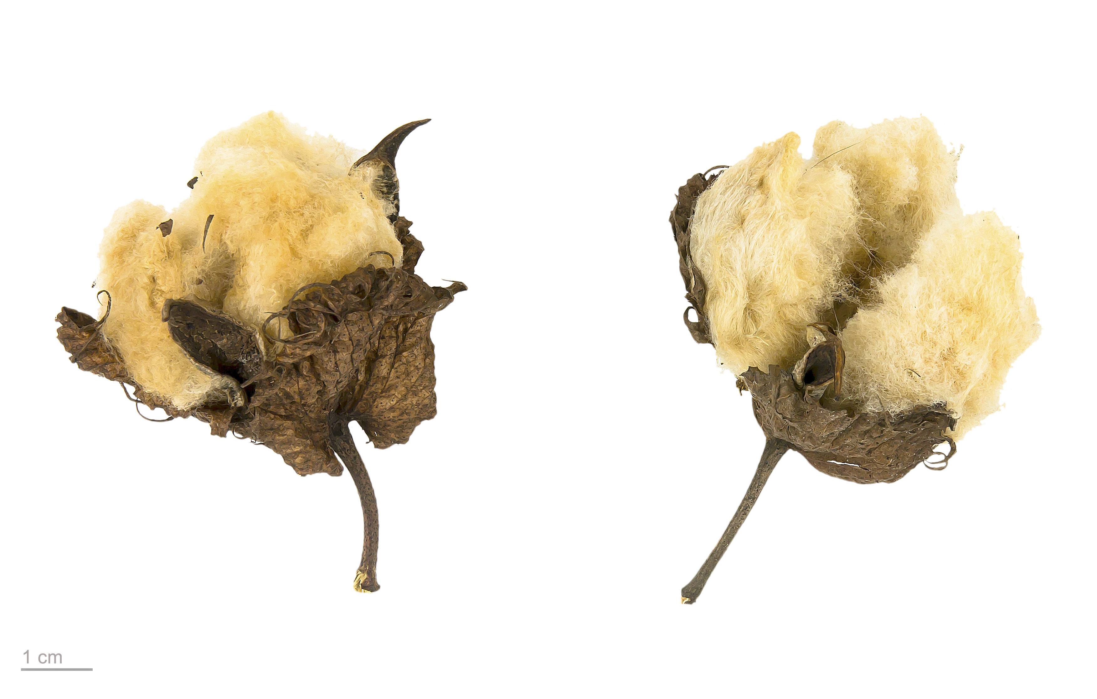 Gossypium Sp. Brun, , seeds